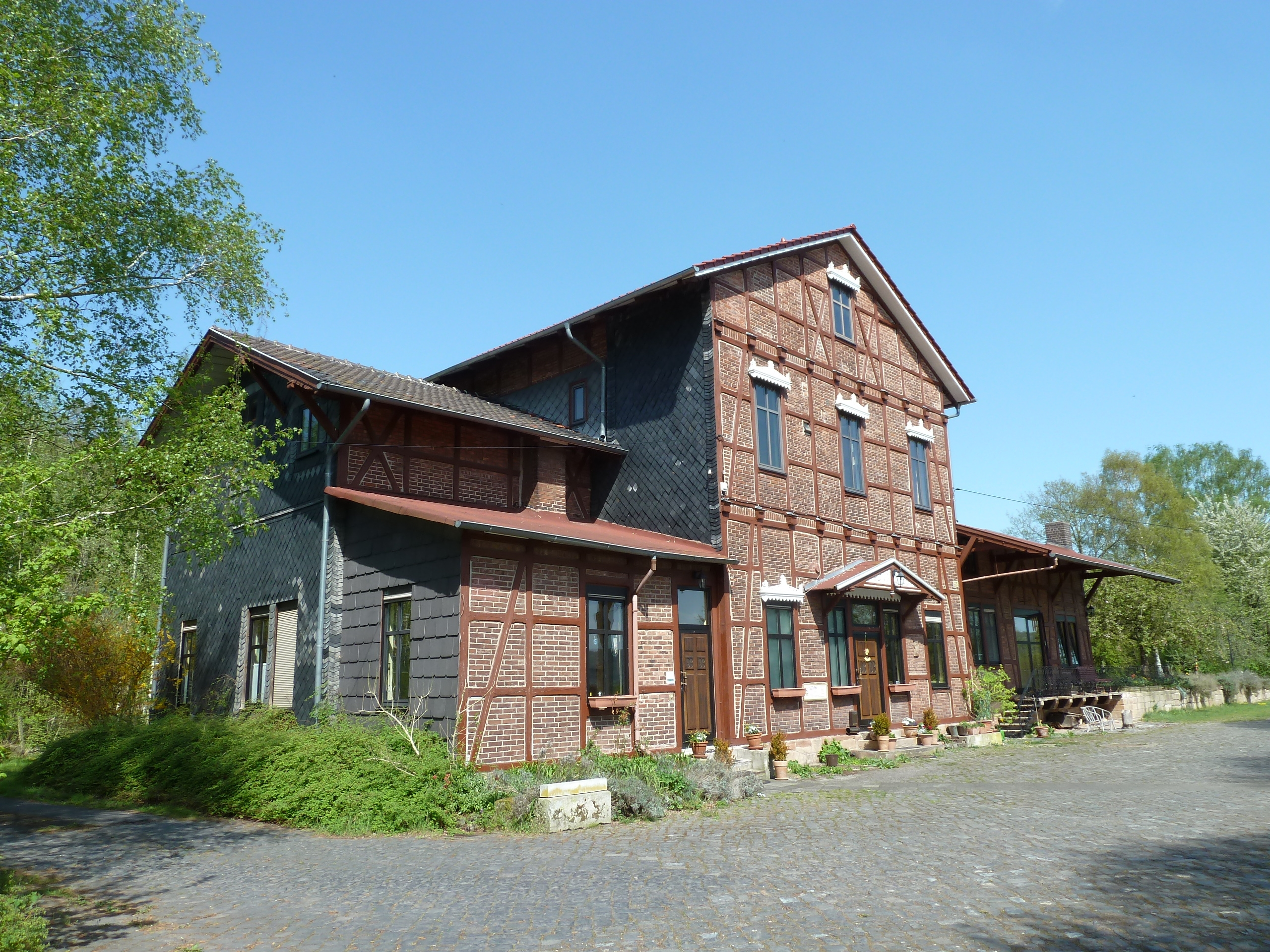 Schwebda railway station at the "Kanonenbahn"